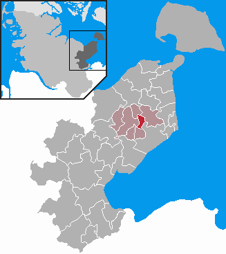 This map shows the area of the Gemeinde (municipality) Kabelhorst in the Kreis (district) Ostholstein, Schleswig-Holstein, Germany.